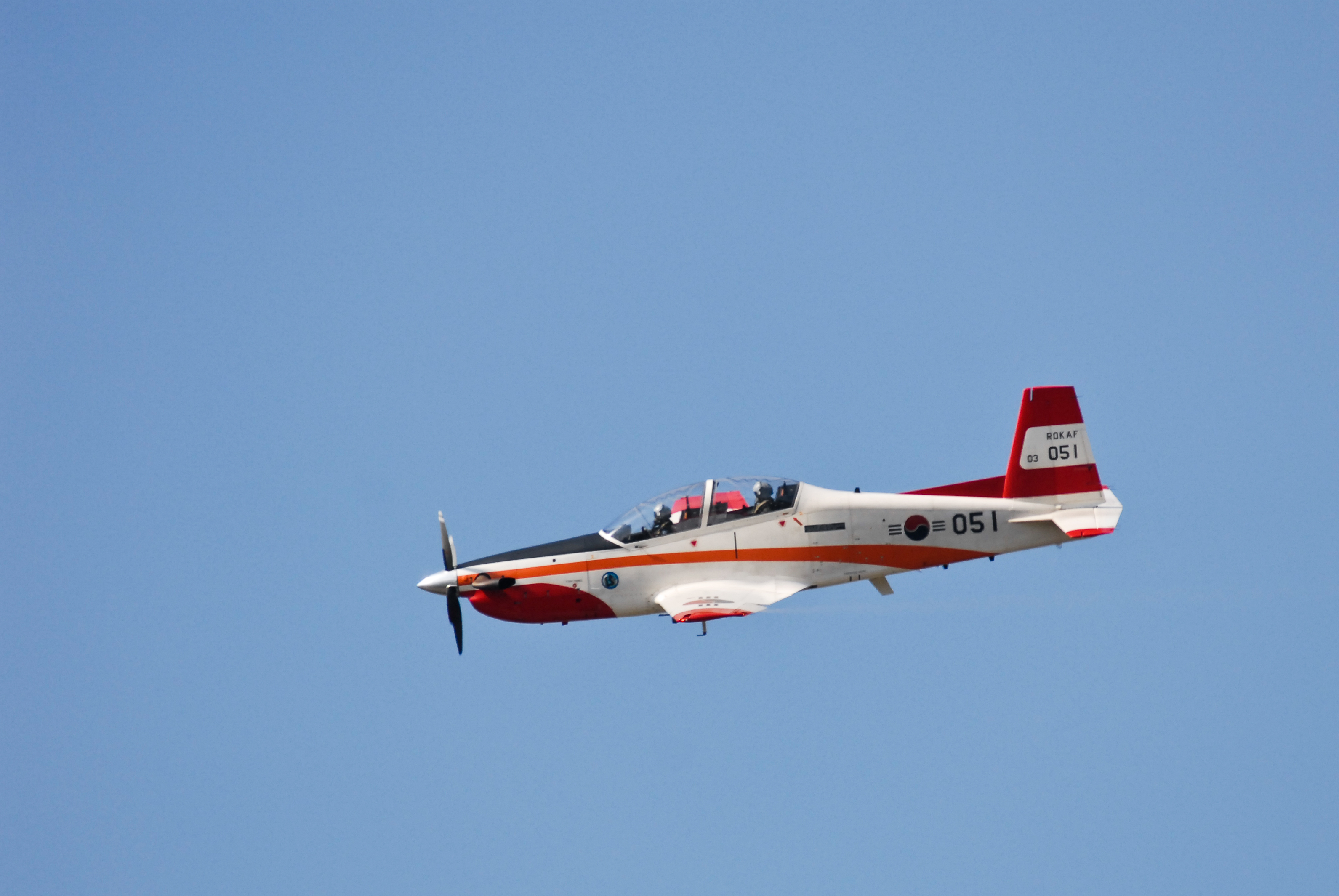 REPUBLIC OF KOREA, SEONGNAM : Demonstration Flight of ROKAF New Light Trainer KT-1 'Woongbi', VISIONSTYLER PHOTO / KIM DOO-HO